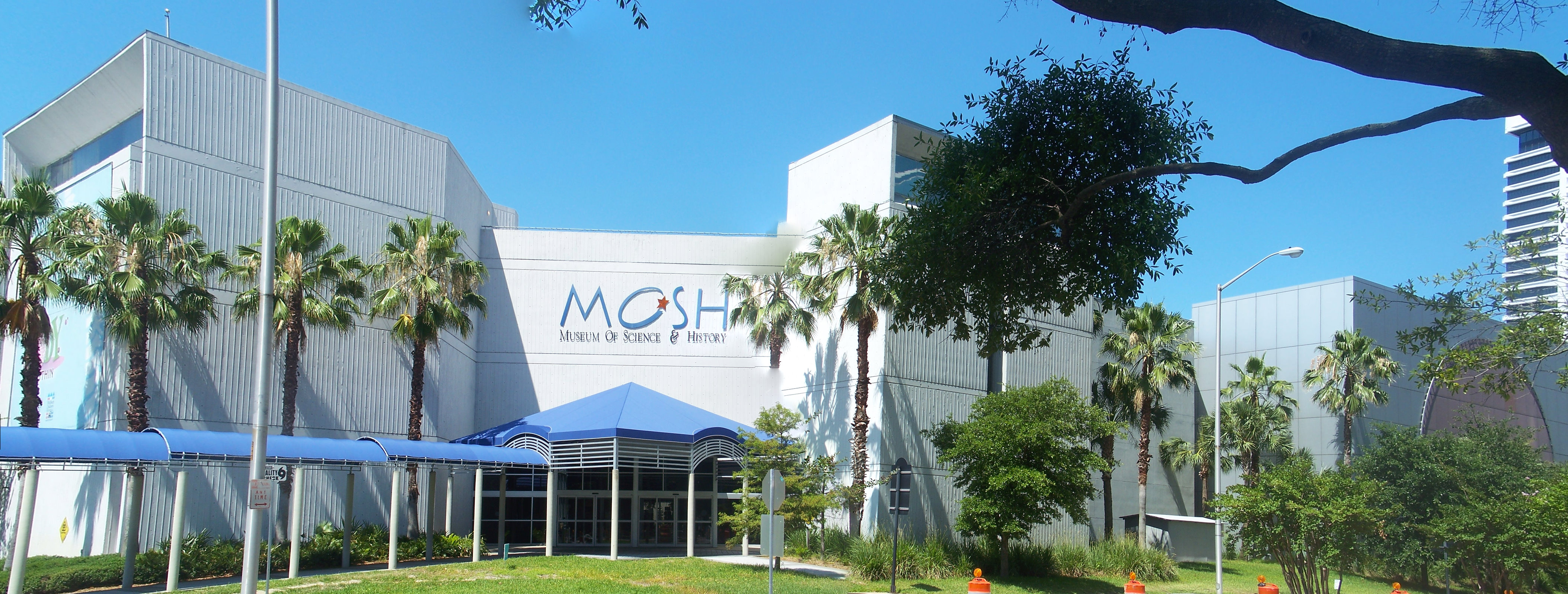 Jacksonville, Florida: Museum of Science & History